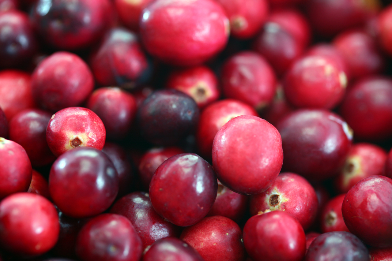 cranberries grown and harvested in Massachusetts, USA